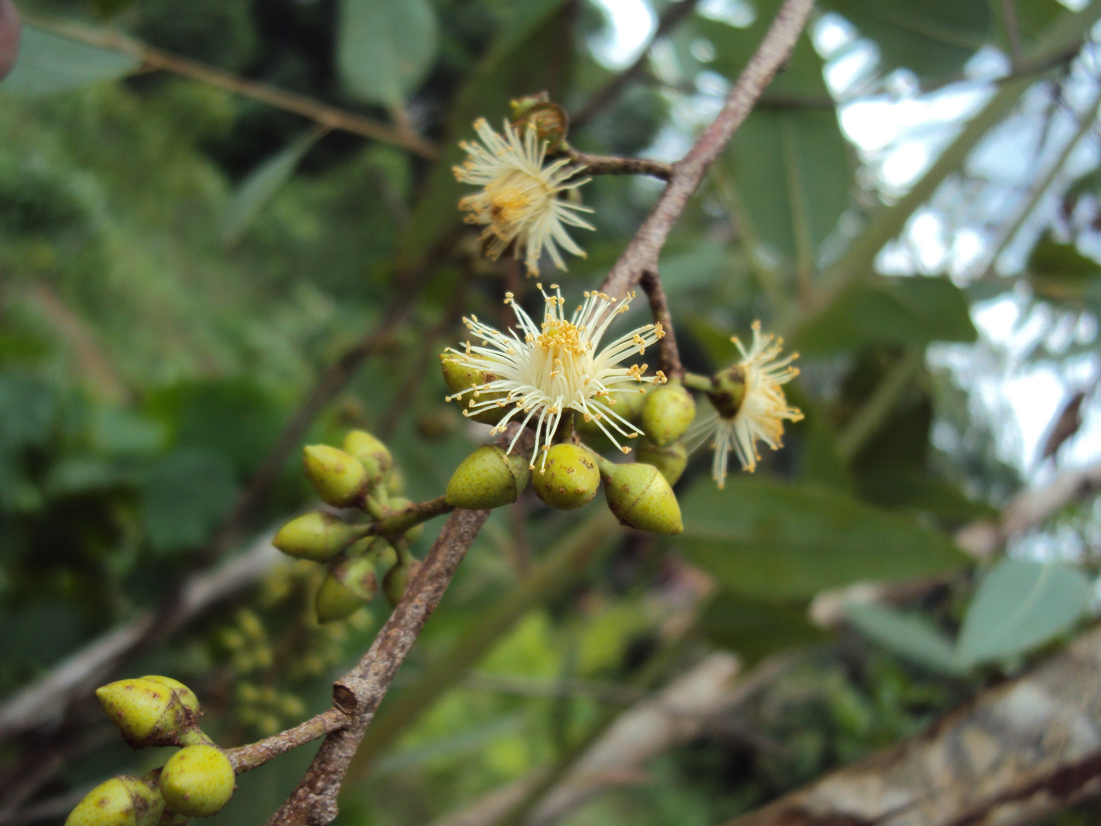 Eucalyptus camaldulensis